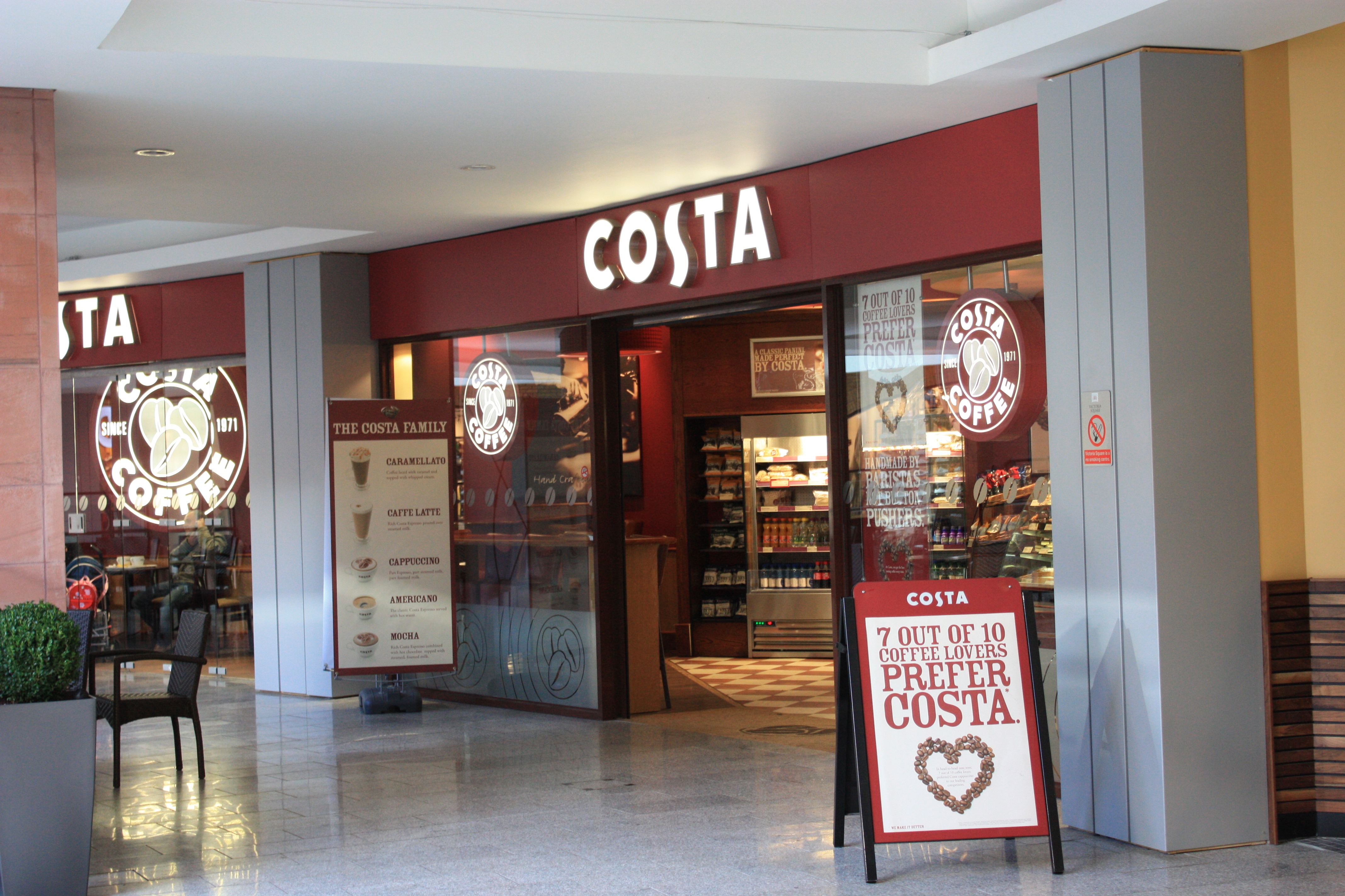 Costa Coffee, Victoria Square, Belfast, Northern Ireland, October 2009